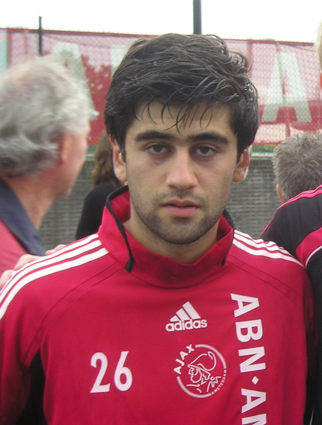 Edgar Manucharyan; image cropped from File:Manucharyan met fan.JPG.